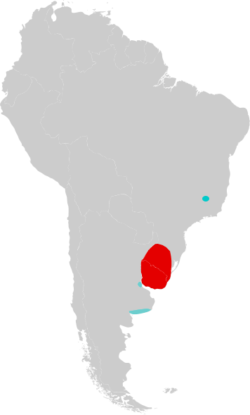 Distribution of Lund's Amphibious Rat in South America. Red: current distribution, blue: fossil records outside current distribution.